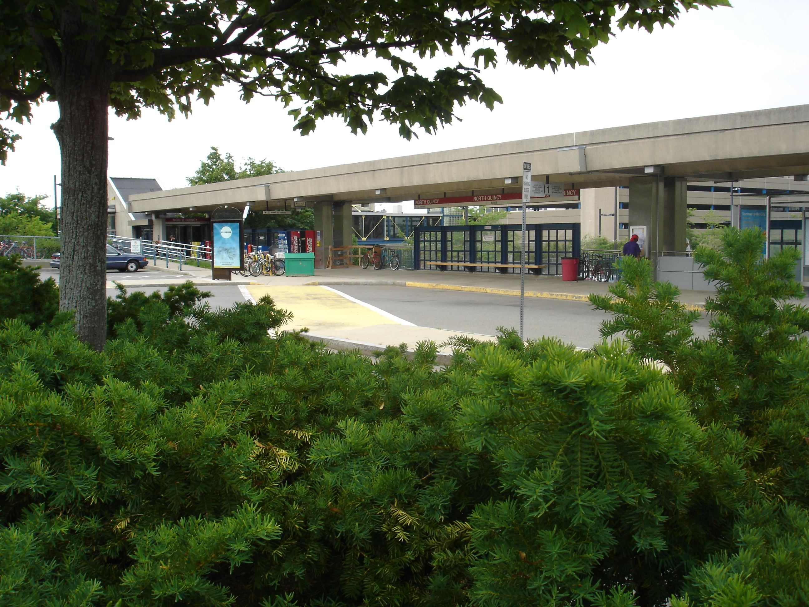 The Squantum Street entrance to the North Quincy MBTA Red Line station in Quincy, Massachusetts